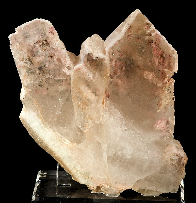 Montmorillonite, Quartz Locality: White Queen Mine, Hiriart Mountain (Heriart; Heriot; Hiriat Hill), Pala District, San Diego County, California, USA (Locality at ) Size: large cabinet, 24.5 x 18.7 x 5.7 cm Quartz included by Montmorillonite This is a beautiful cluster of unusually large quartz crystals, richly included with the pink mineral montmorillonite. The White Queen is as well known for this combination, as for its famous morganites. This specimen is a level of magnitude higher than most others, in that it is large, beautiful, and complete. It was sawed down the middle, and each half mounted so they could be displayed to show the inclusions and the form to maximal visual effect. The reverse sides are complete, by the way, showing the outer milky quartz. Each weighs about 7 pounds. It is incredible to me that this specimen came out in one piece and was not repaired. Amongst many others in the Pala collection, this was the finest large example. Second photo shows the other half. Ex. William Larson Collection.